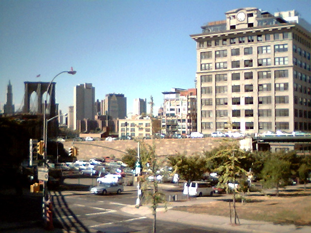 I.M. Rich This is the Brooklyn Bridge. There is no Manhattan Bridge or Fulton Ferry in this picture